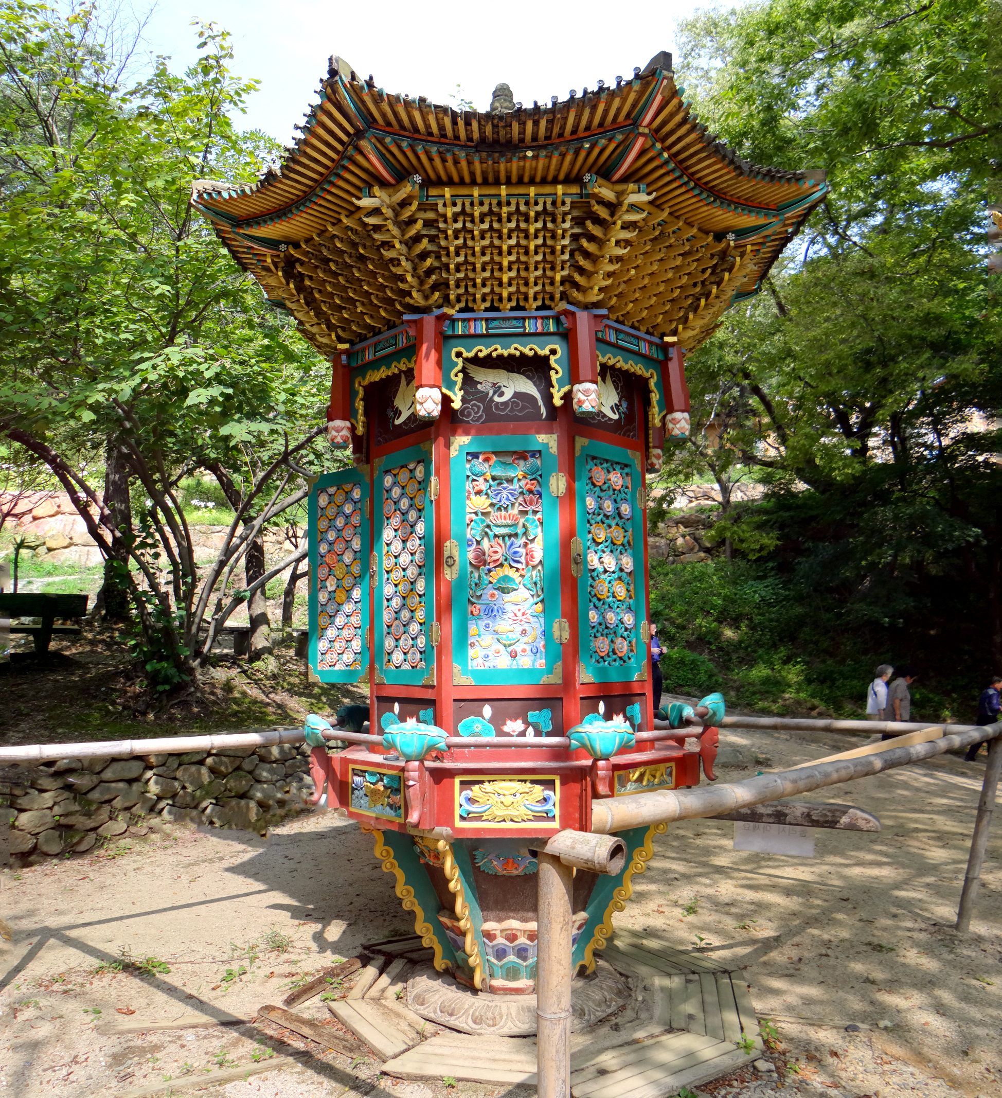 Jeondeungsa Yunjangdae - Turning Yunjangdae once around with the pole is like reading the Scriptures inside the chamber. The reason for the pole-turning is to spread the word of Buddha's law, what it means to this country, asking for good weather for a plentiful harvest, and a desire to achieve peace. Jeondeungsa, situated on Mount Jeongjok, was established by Monk Adohwasang of Goguryeo when Queen Jeonhwa, donated a jade lantern to the temple.